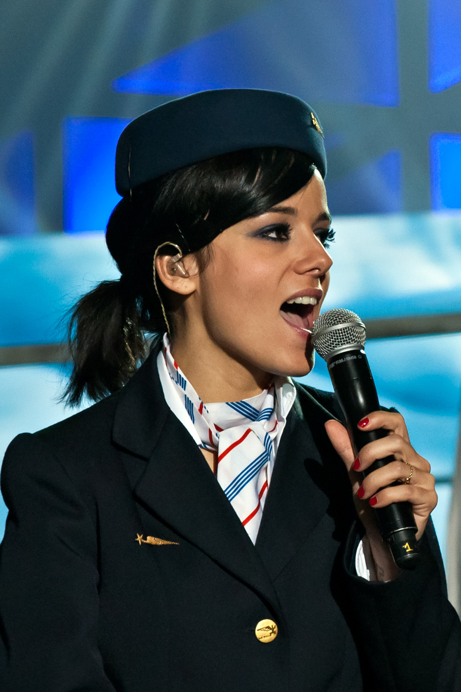 Alizée, a French singer, dressed up as flight attendant and singing during Les Enfoirés 2012 (Le Bal des Enfoirés).